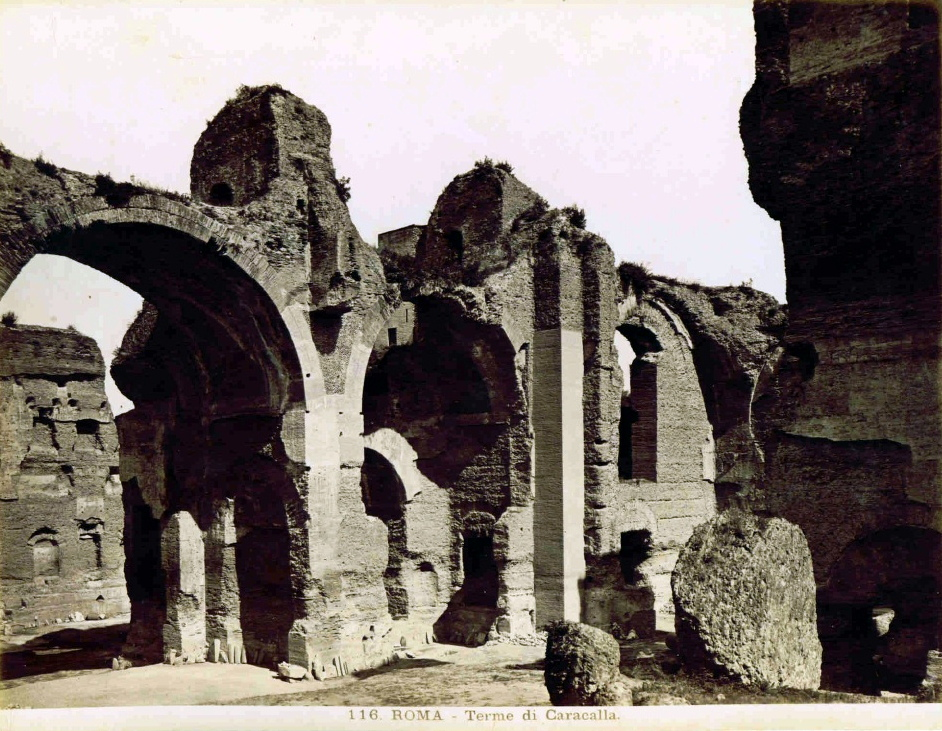 Domenico Anderson (1854-1938) - "Rome. Baths of Caracalla". Catalogue # 116.